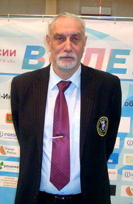 Soviet volleyball player Aleksandr Savin